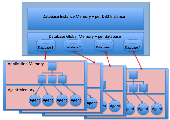 Main DB2 Memory Areas